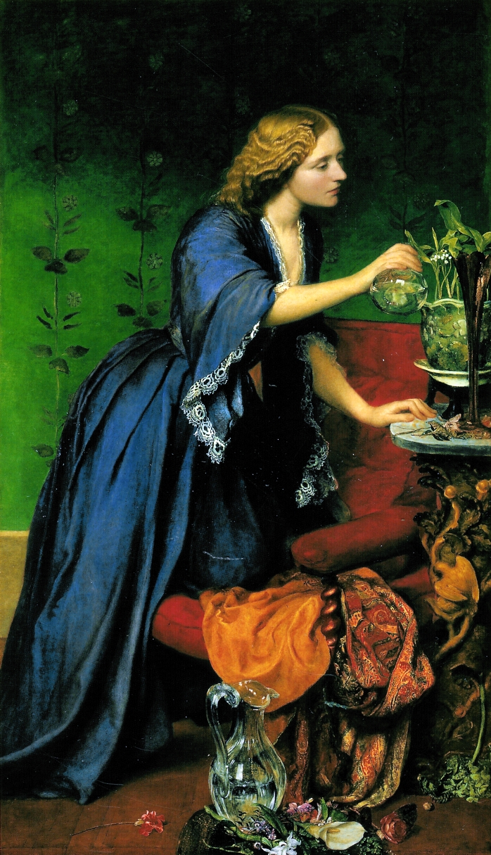 Jane Senior (128-1877), Britain's first female civil servant